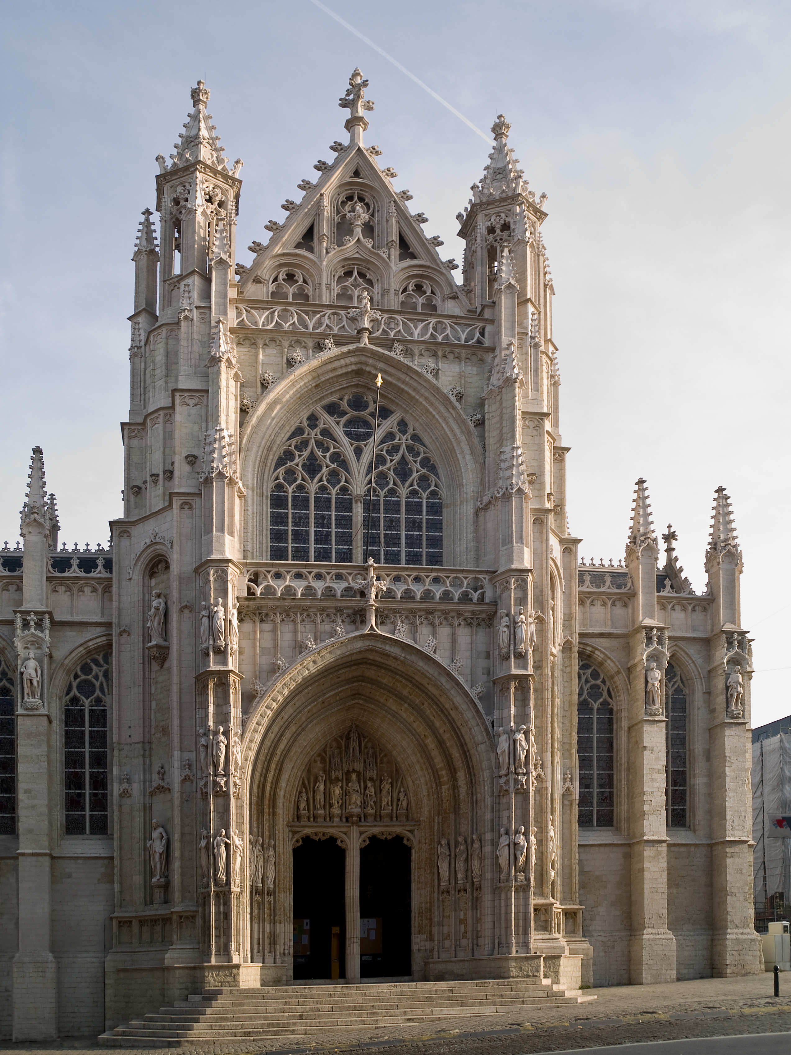 Our Lady of Sablon church in Brussels, Belgium: facade and portal, rue des Sablons.